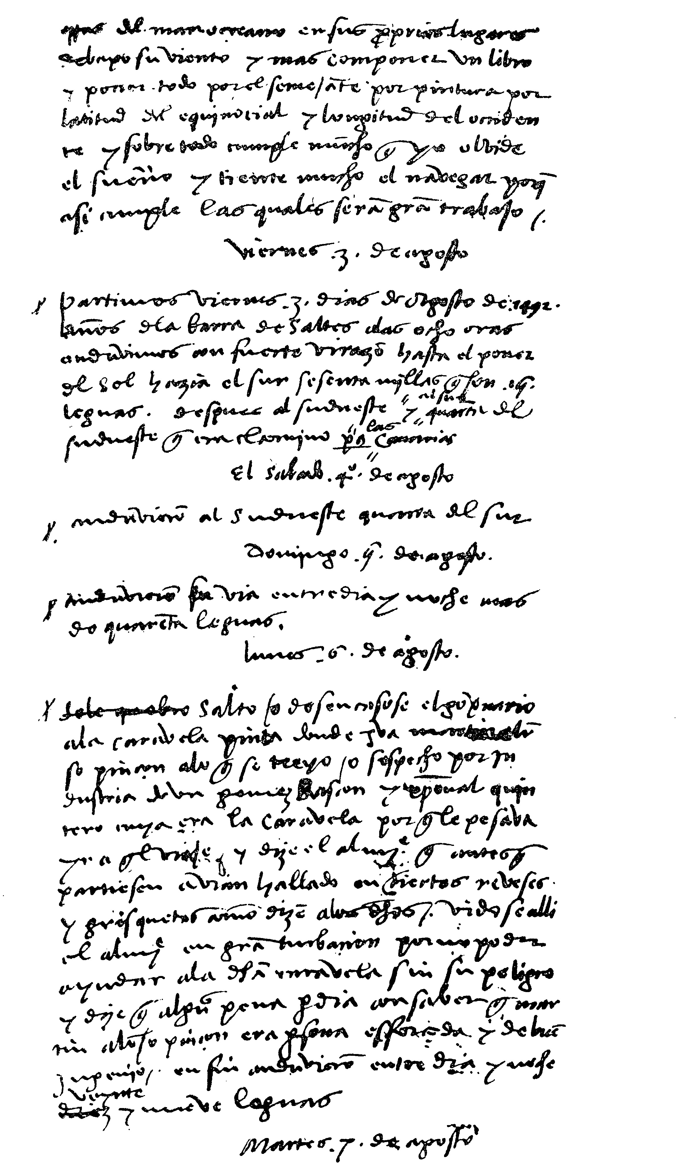 Copy of the abstract from Christopher Columbus' journal by Bartolomé de las Casas.